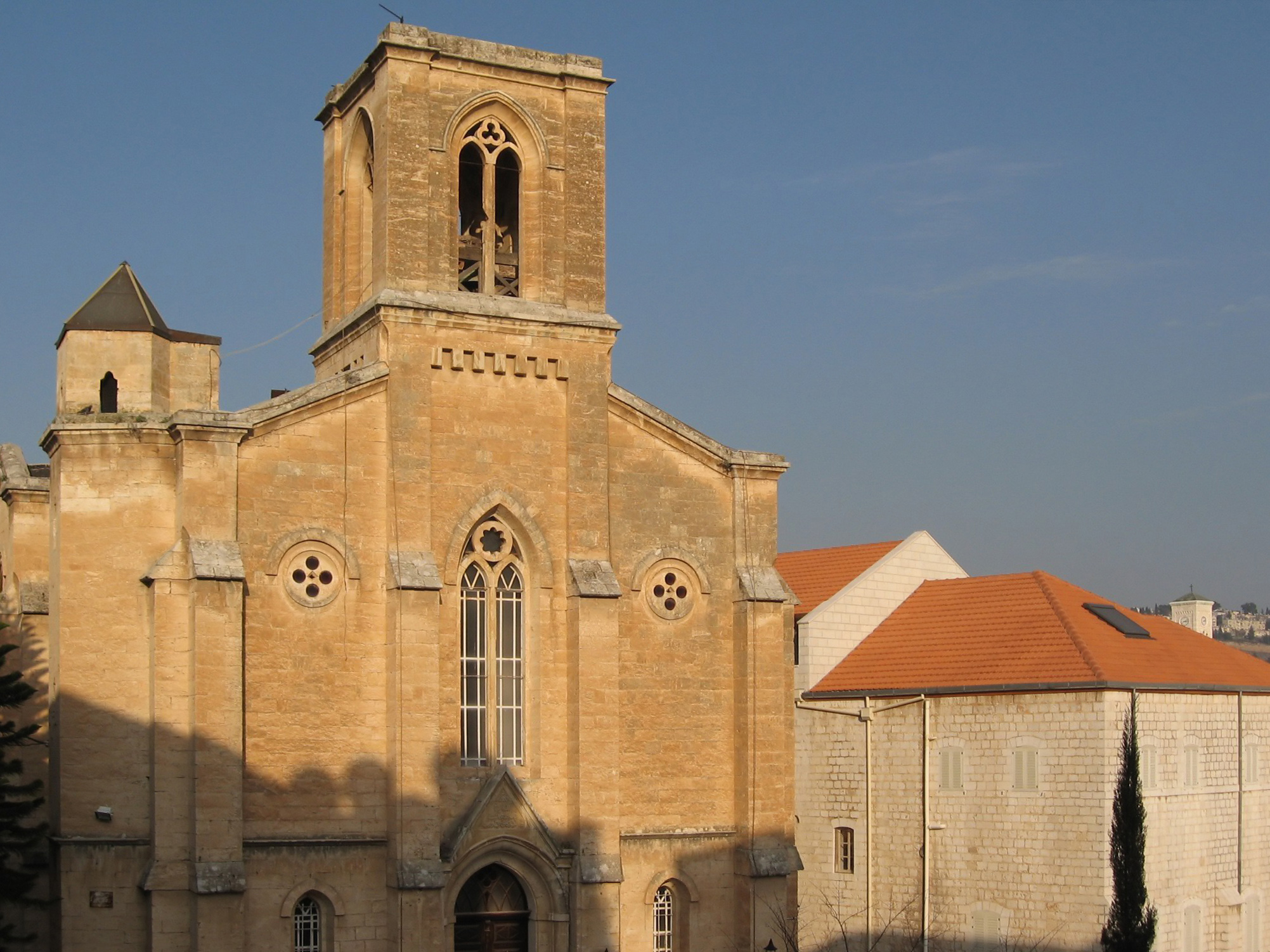 Christ Church in Nazareth, built 1871 with plans from Ferdinand Stadler